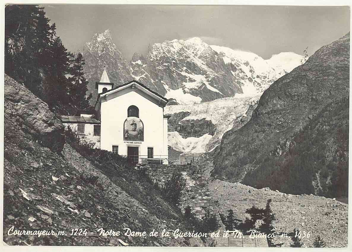 AO Courmayeur m.1224 - Notre Dame de la Guerison m.1436 e il Monte Bianco sullo sfondo